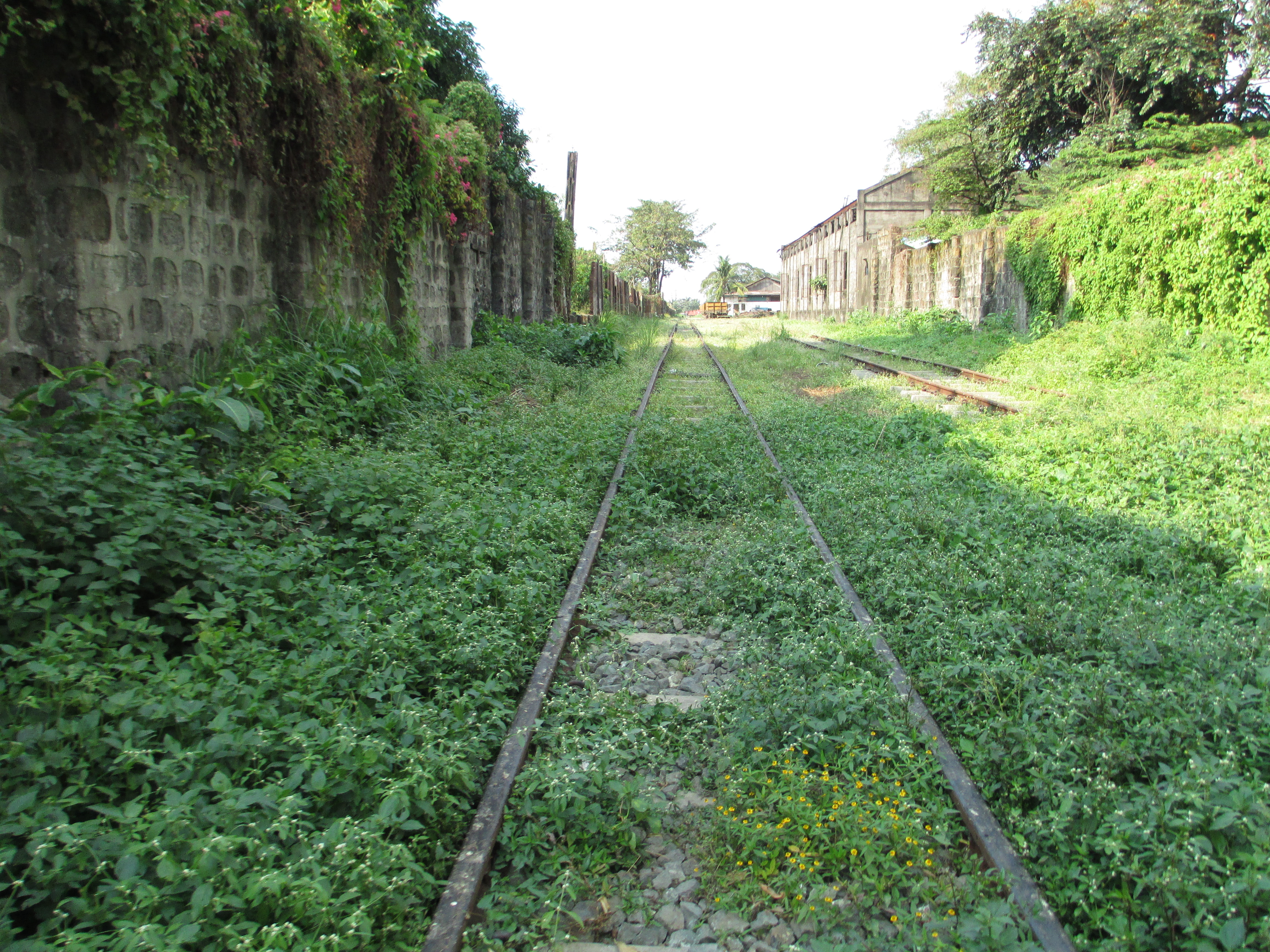 constructed but not used, Government corruption and multiple contractor anomalies is the main cause of abandonment.